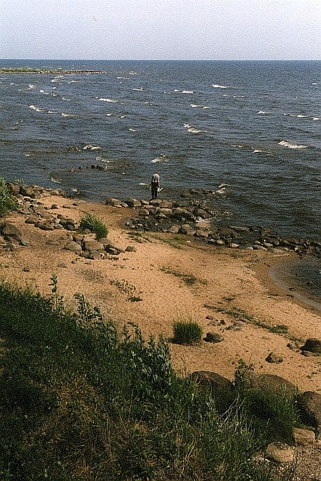 The lake of Peipsi, Estonia, near the city of Kallaste. Russia is behind of the lake.